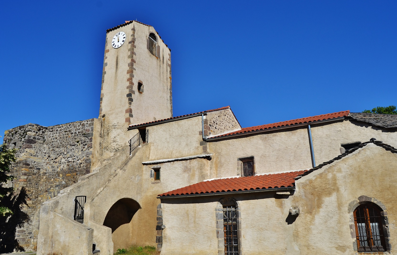 L'église